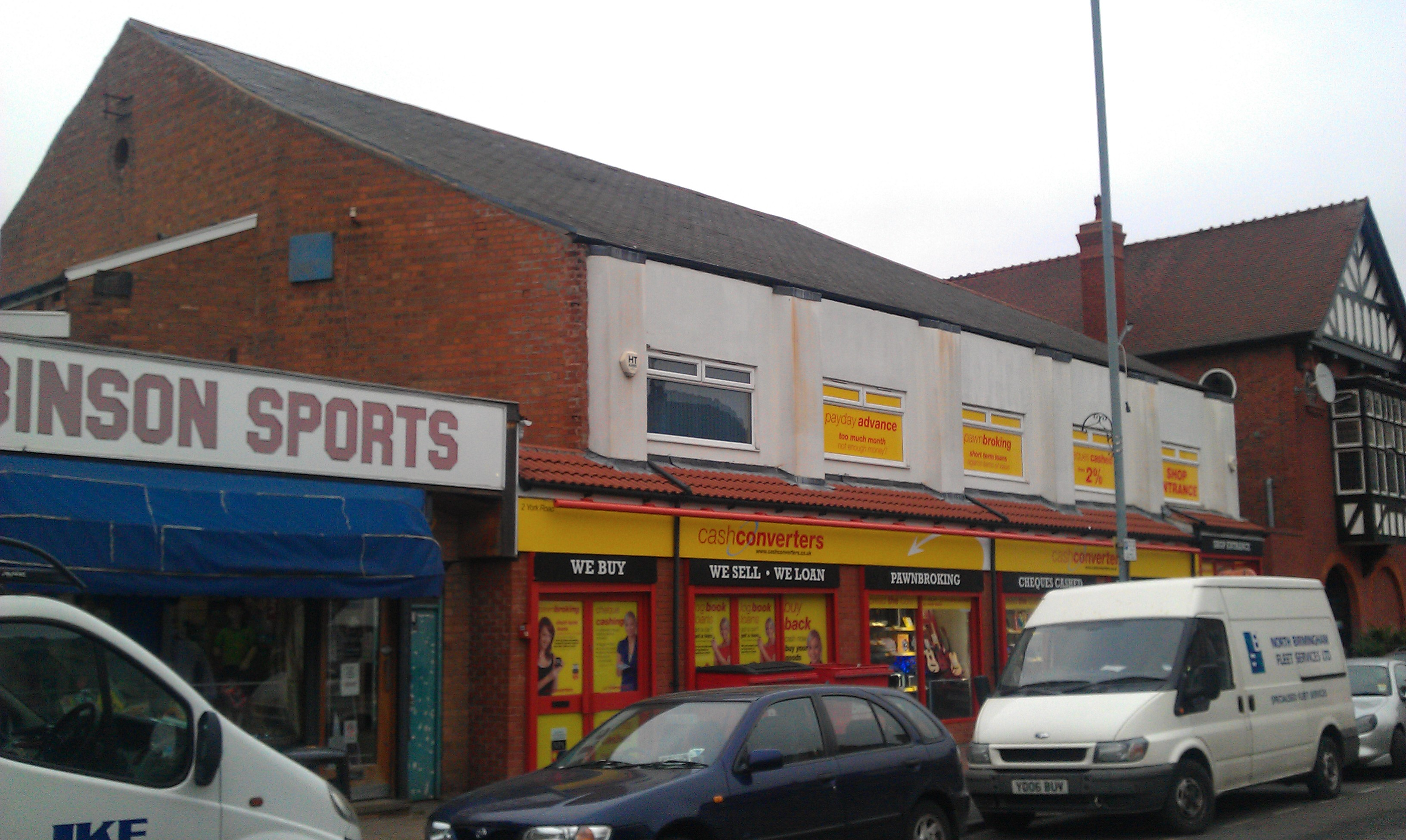 The former Ideal Cinema, later Ritz Ballroom, Kings Heath, Birmingham, England. As of February 2012, a branch of Cash Converters, but destroyed by fire in March 2013